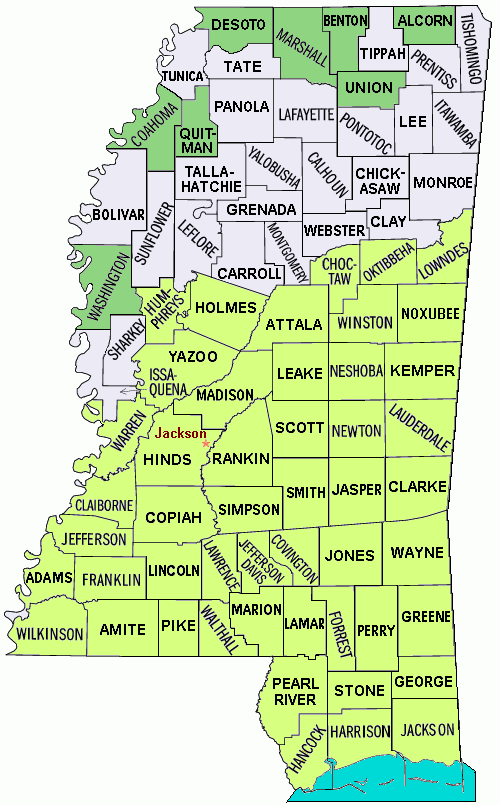 Hurricane Katrina disaster areas: Map of the state of Mississippi showing borders and names of the counties, with disaster areas from Hurricane Katrina shaded: all counties in Mississippi were declared disaster areas on 10/27/2005, with 49 counties for full Federal assistance (FEMA). The file is in JPEG format for rapid display, due to auto-resizing smaller.Source (Wikipedia): :Image:Mississippi counties map.png (with 49 counties shaded, converted to JPEG format, with white background trimmed).Variations::* GIF map with flood areas: :Image:Mississippi counties map Katrina flood.gif.:* JPEG format of disaster area: :Image:Mississippi counties map Katrina disaster area.jpg.:* JPEG all counties, 280-pixel width: :Image:Mississippi counties map 280px.jpg.:* PNG-format all counties, with wide background: :Image:Mississippi counties map.png.The PNG crusade bot automatically converted this image to the more efficient PNG format. The image was previously uploaded as "Mississippi counties map Katrina disaster area.gif".04:56:03, 4 March 2007 . . Wikid77 (Talk